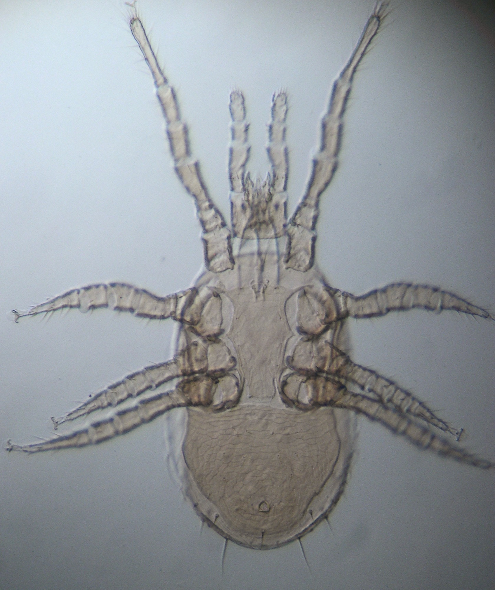 Maennchen von Arctoseius magnanalis